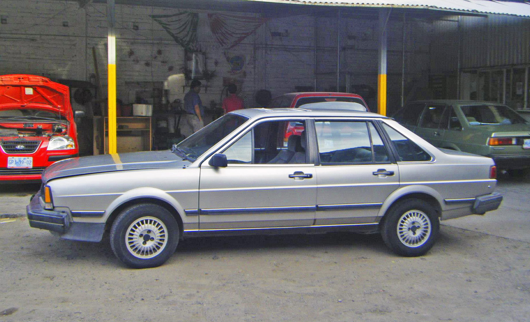 1985 Volkswagen Quantum GL5